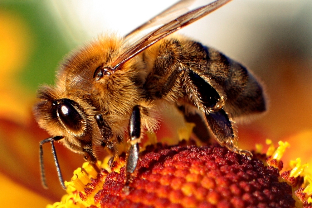 Bee of the genus Apis on a flower